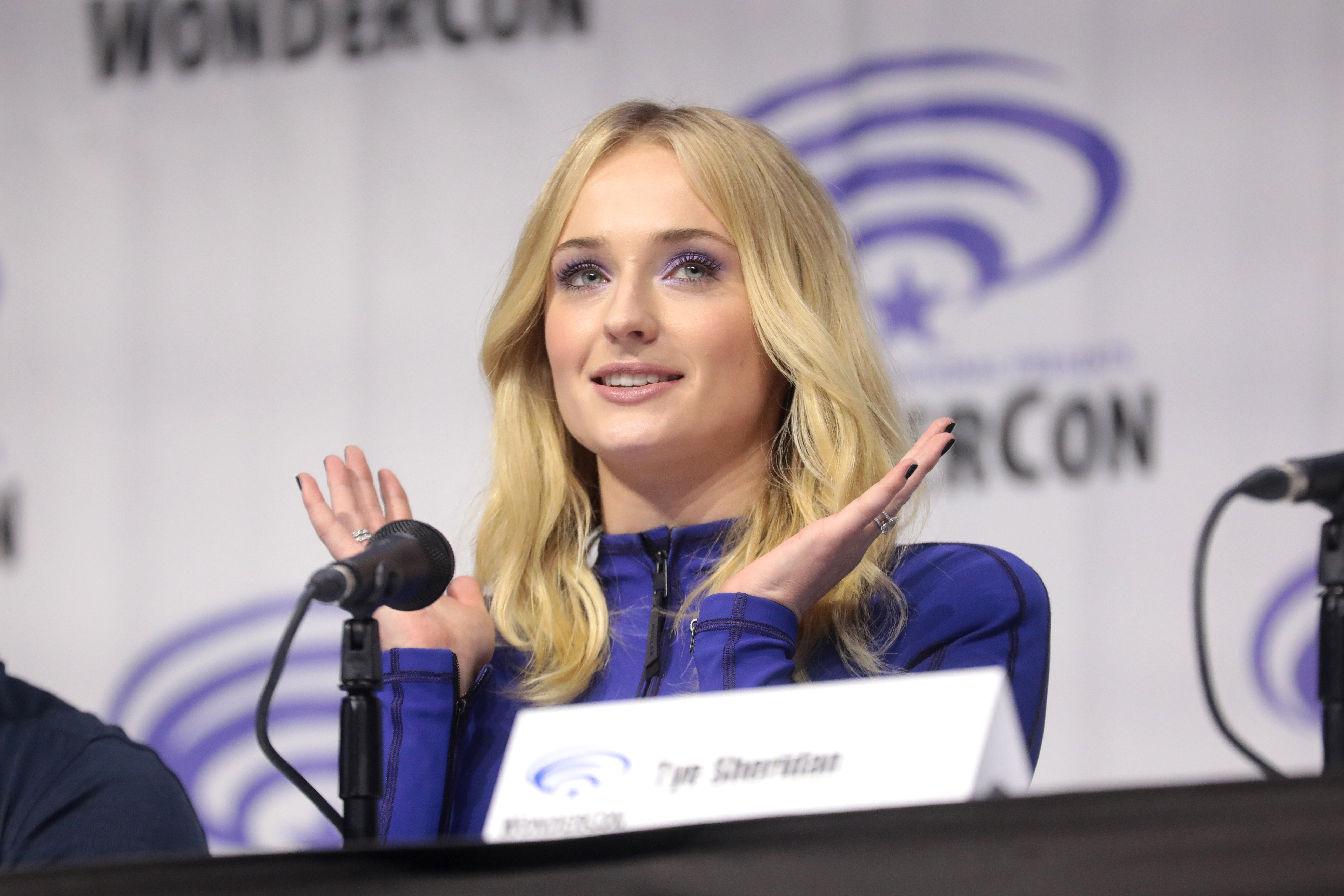 Sophie Turner speaking at the 2019 WonderCon, for "Dark Phoenix", at the Anaheim Convention Center in Anaheim, California.